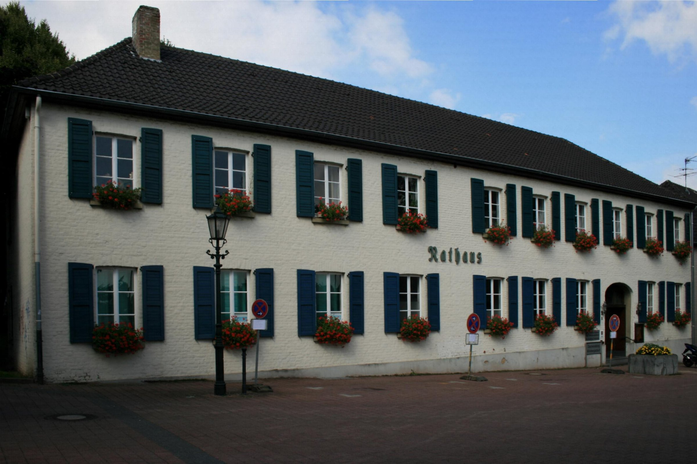 Cultural heritage monument No. K 025 in Mönchengladbach